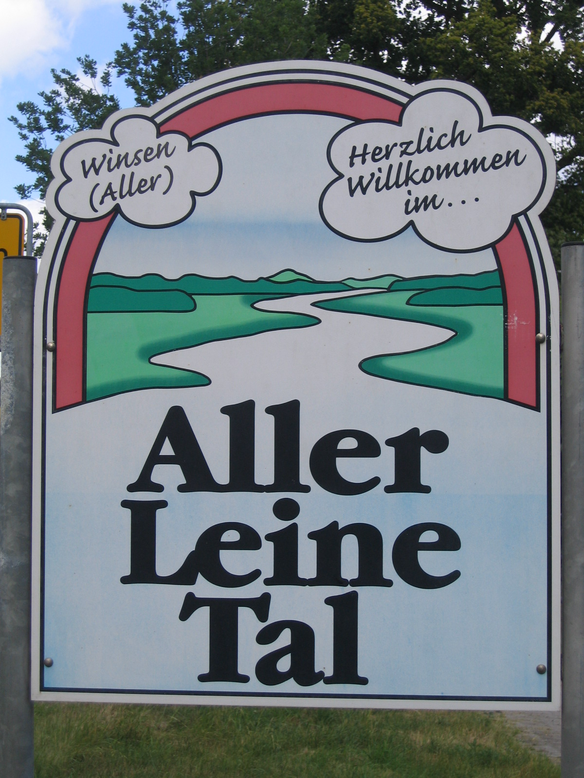 Sign for the Aller-Leine Valley at Wolthausen in Lower Saxony, Germany.